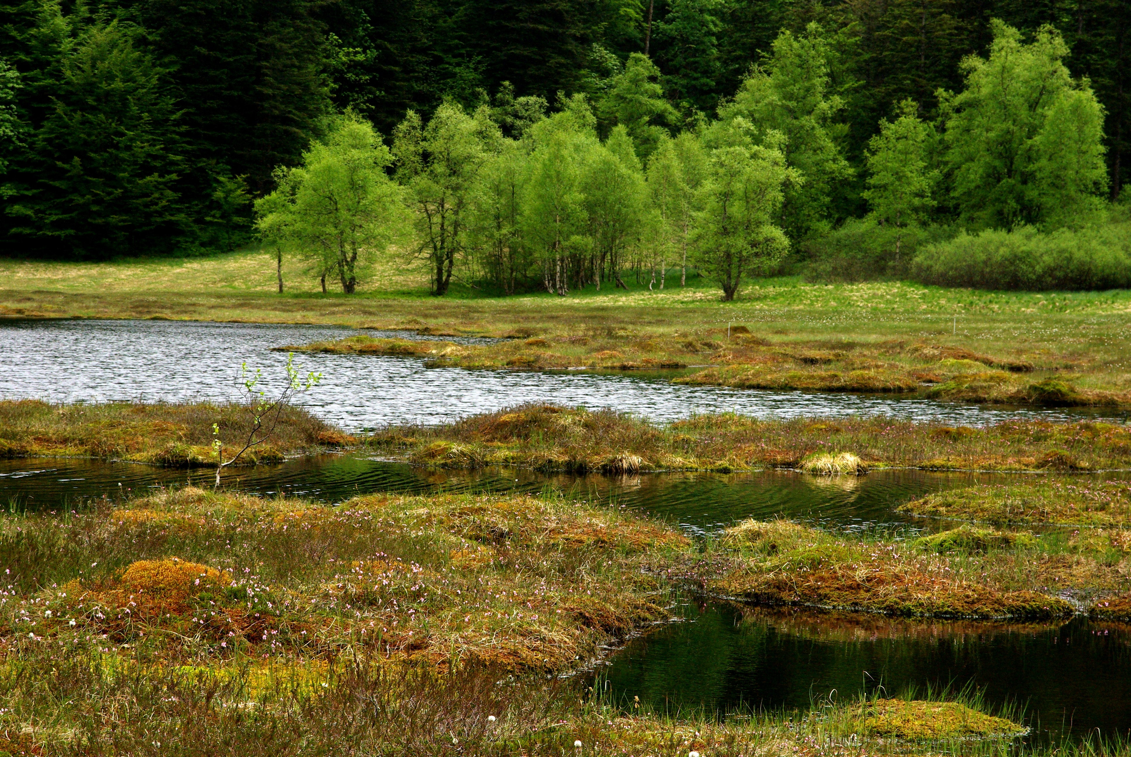 Lake and quagmire of Machais - Highest Vosges mountains, France